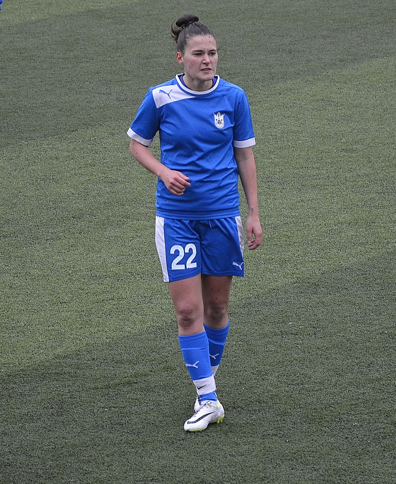 Tatiana Matveeva for Konak Belediyespor in the 2013-14 season